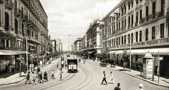 Cairo view in 1920s